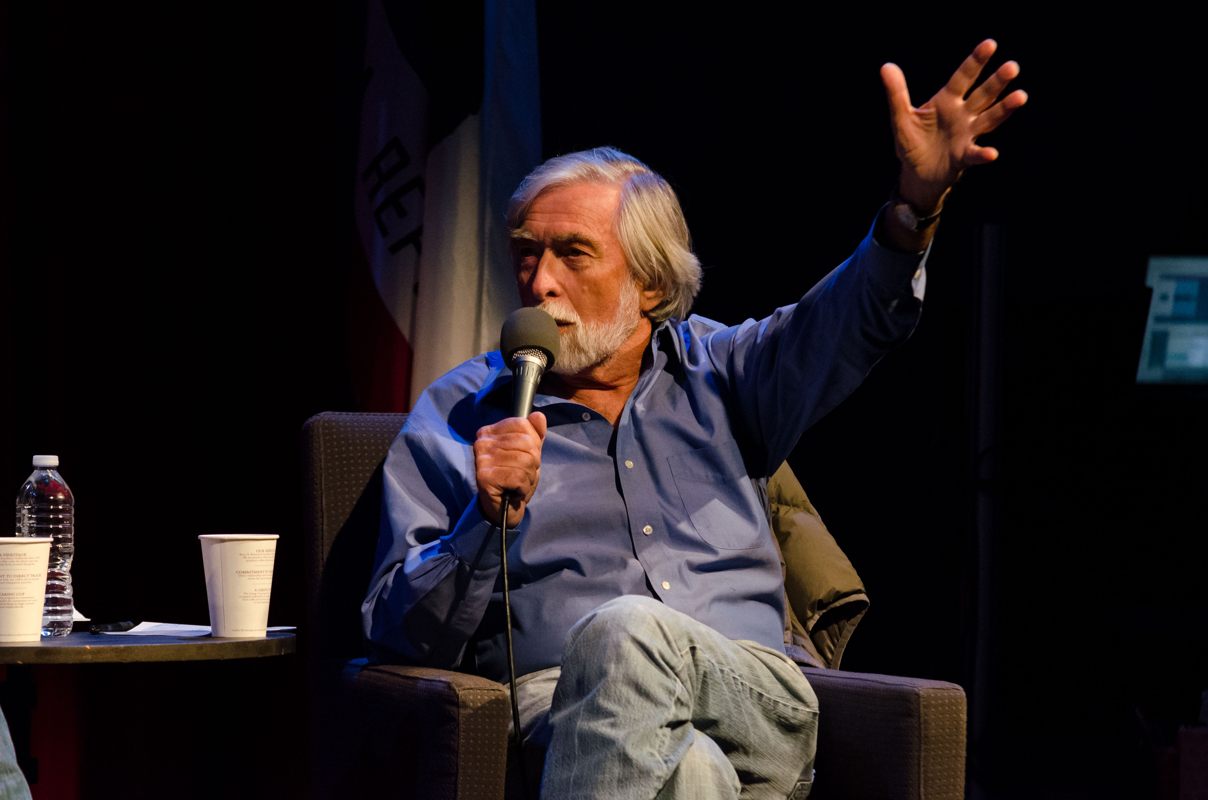 American journalist Robert Scheer expresses disapproval at the claims his fellow panelists present about the role of journalists in protecting their sources. (Benjamin Dunn/Neon Tommy - the students of the USC Annenberg School of Journalism)